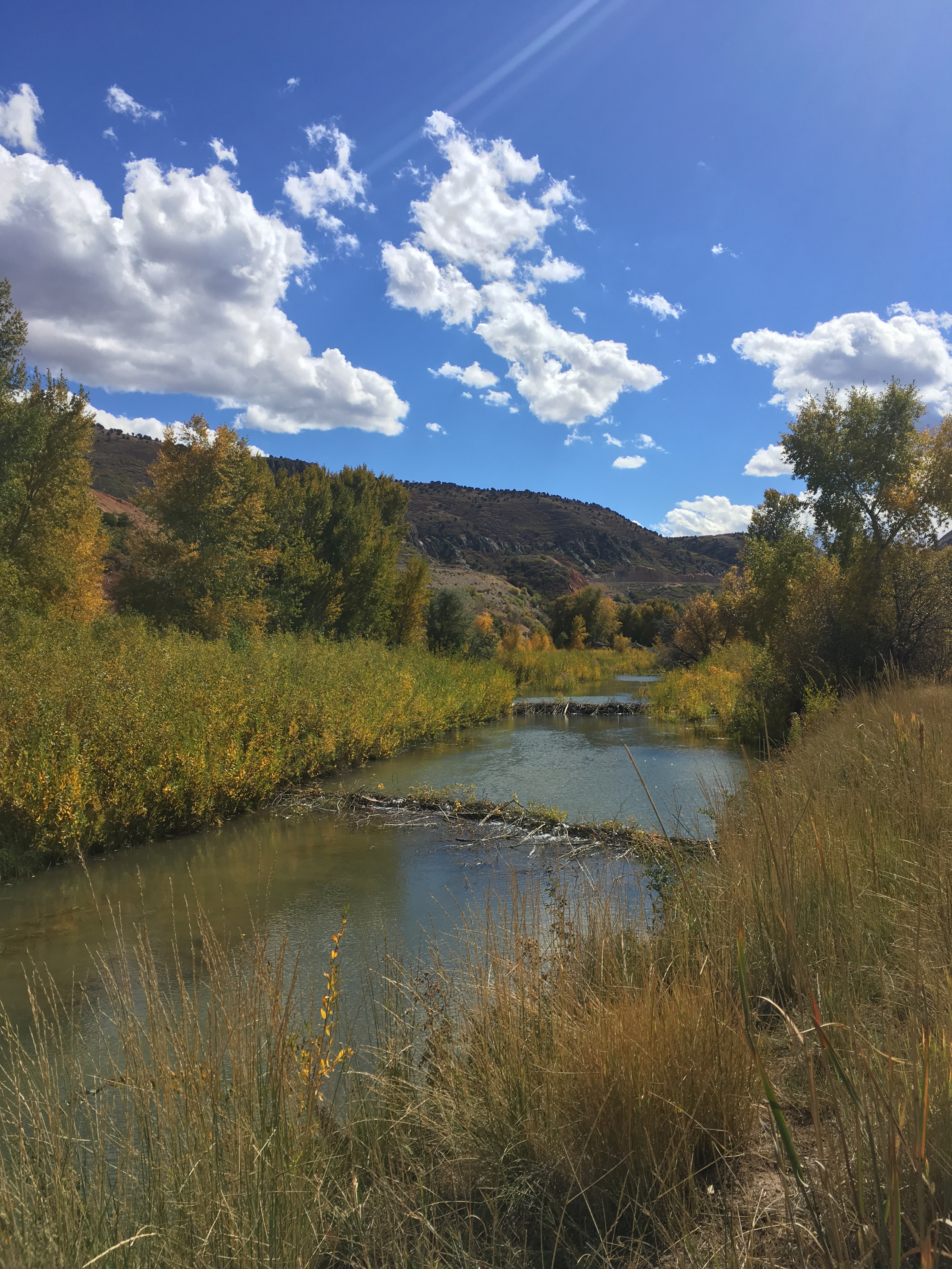 Fall leaves along the Spanish Fork River, with the grade for US-6/US-89 in the distance, October 2016